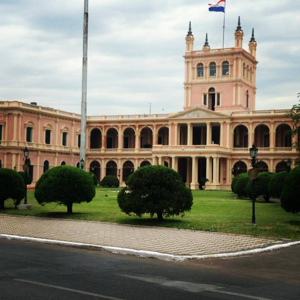 Palace where the Governor is living